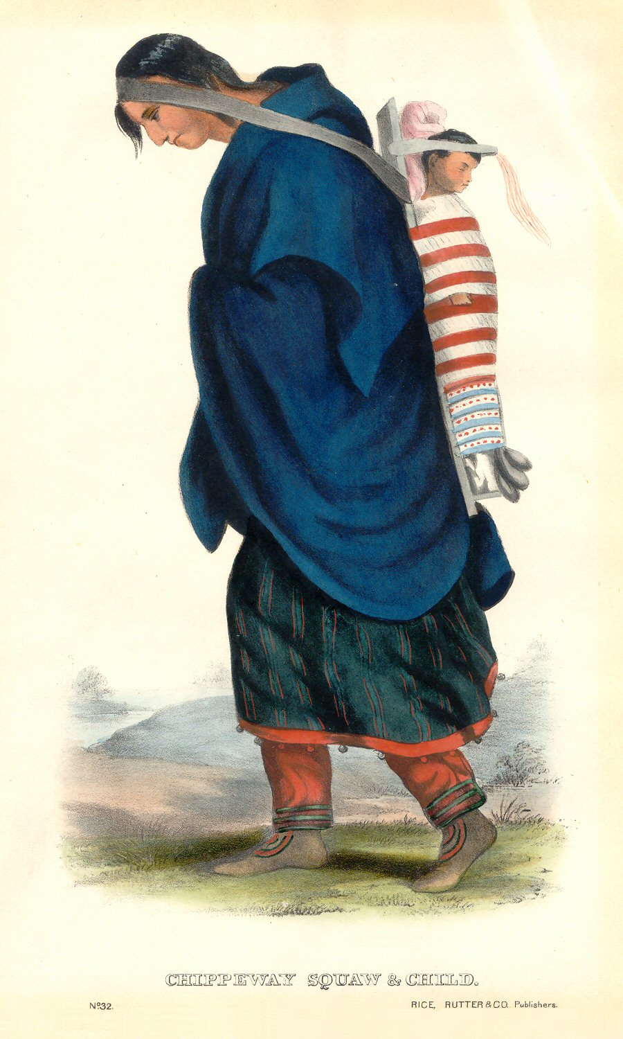 Chippeway Squaw and Child, by Charles Bird King, Published ca. 1836-44 by Rice, Rutter & Co., Philadelphia. SI.1990.017 H.10 1/4" X W.6 3/8" (octavo)